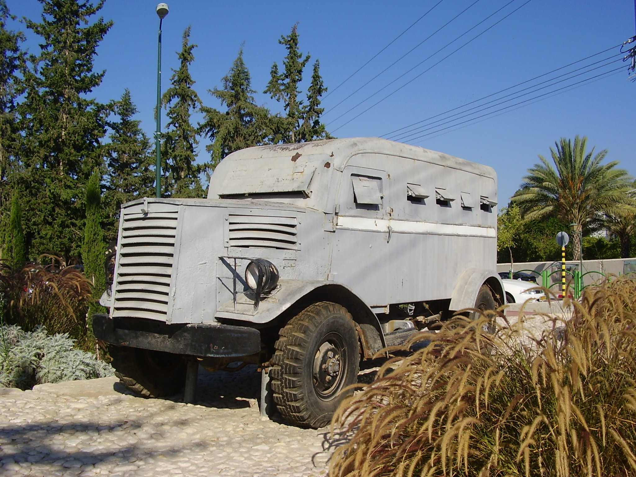 armoured vehicle from the independence war, in mazkeret batya